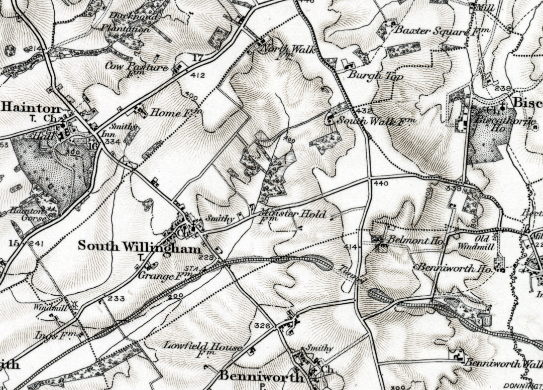 1899 Ordnance Survey one-inch map of South Willingham in Lincolnshire, England. Reproduced with the permission of the National Library of Scotland.[1]